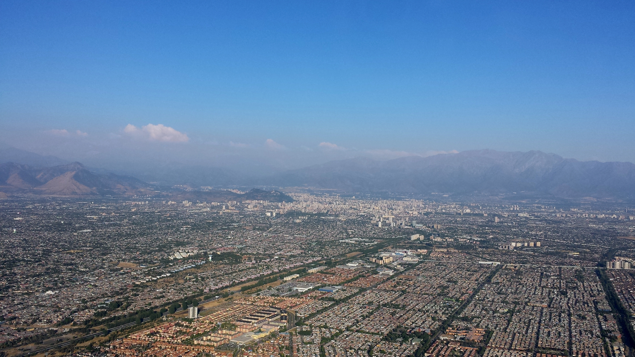 Santiago and the Andes from air. View to the east.